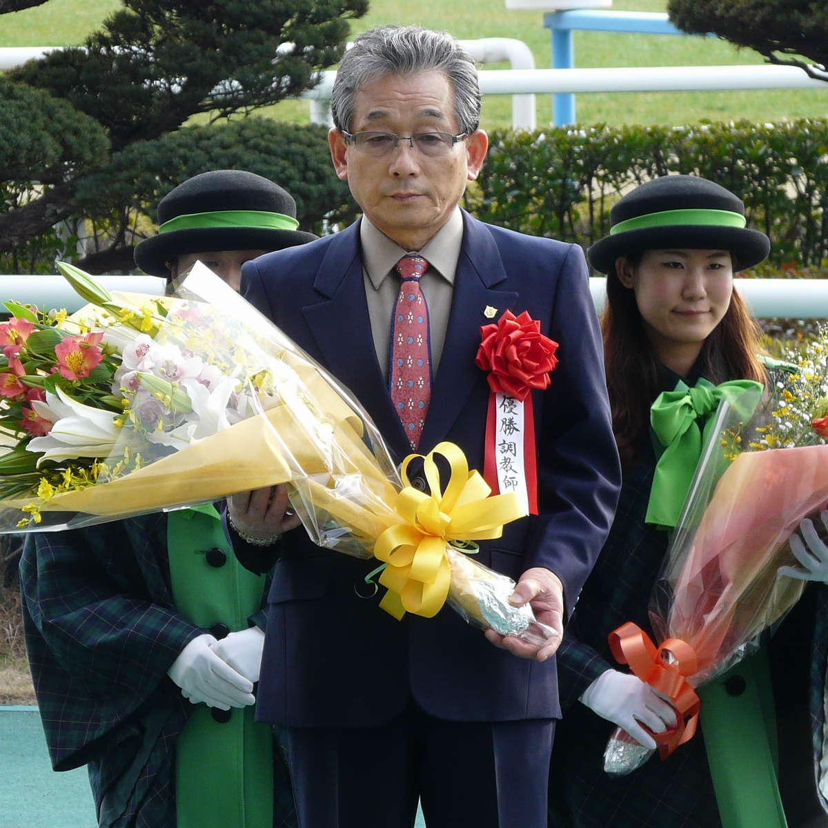 Masanori-Sakaguchi20120204